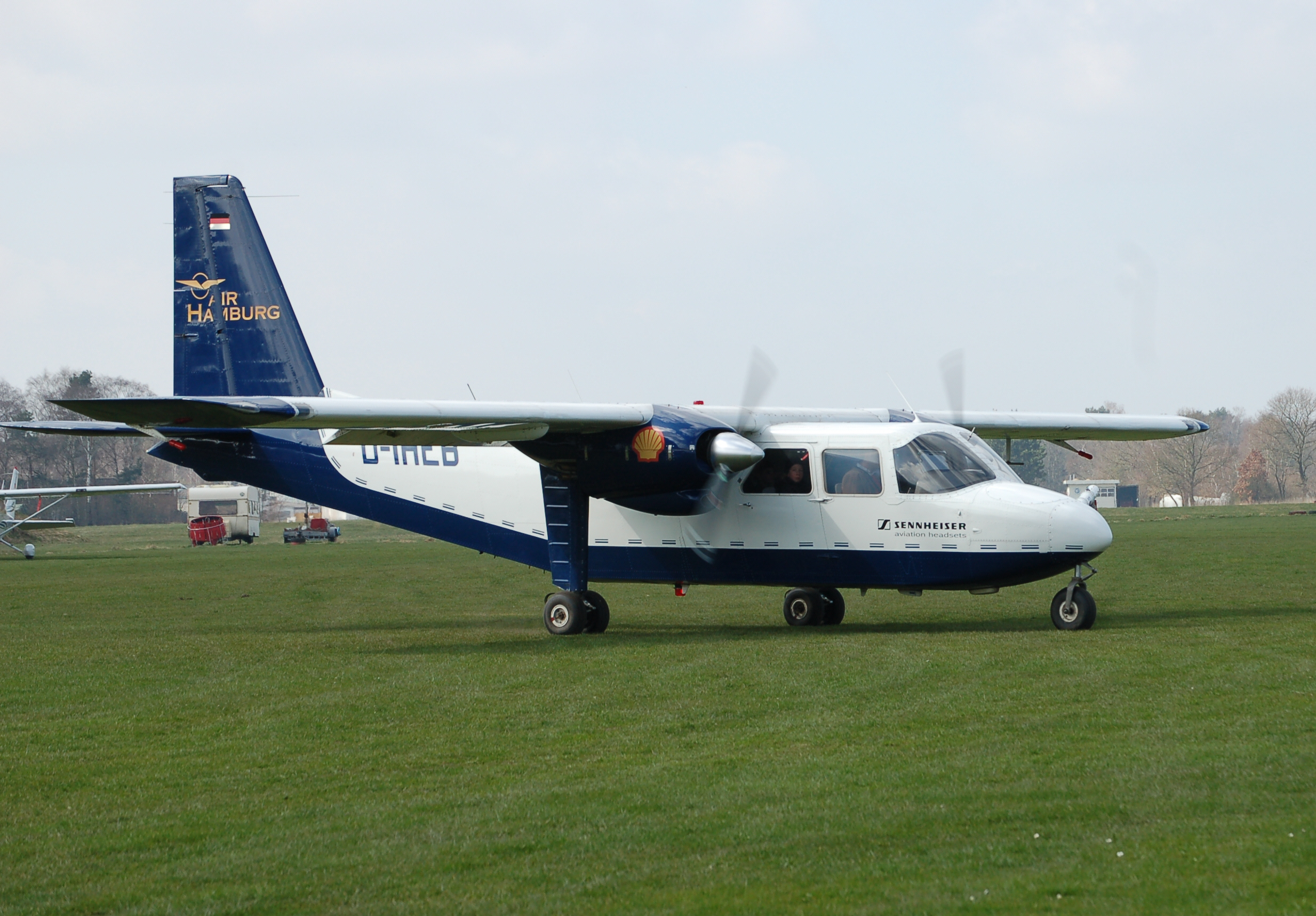 Britten Norman Islander auf dem Flugplatz Uetersen.